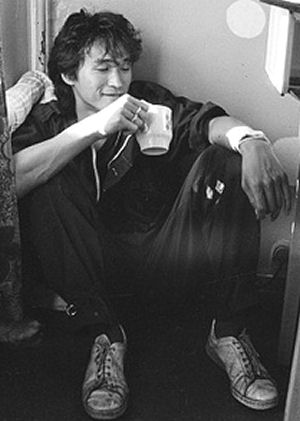 Victor Tsoi, vocalist of Kino, in 1986